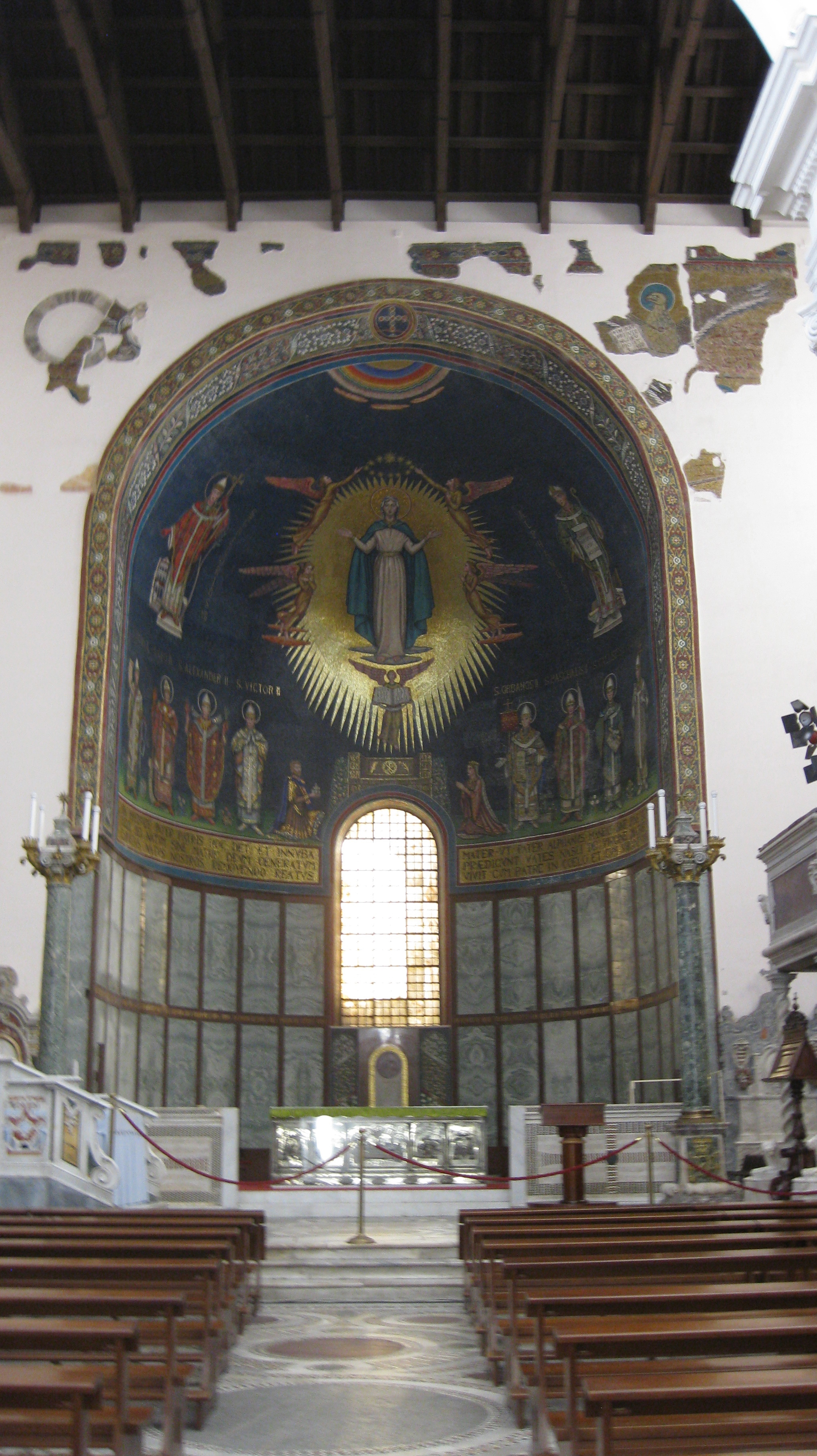 Central apse of the Salerno Cathedral